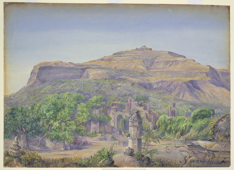 'Champaneer, near Baroda, India. Febr. 1879'